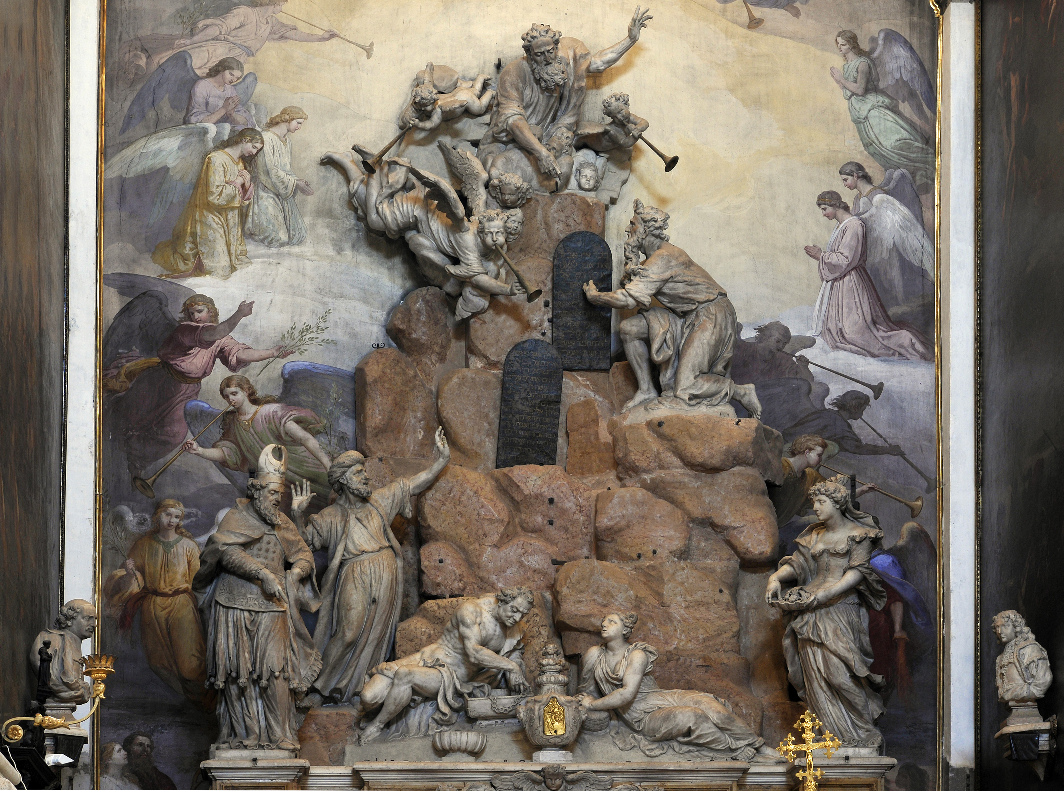 Altar by Enrico Merengo in the San Moisè church in Venice, Italy. The background painting is by Giacomo Casa 1851